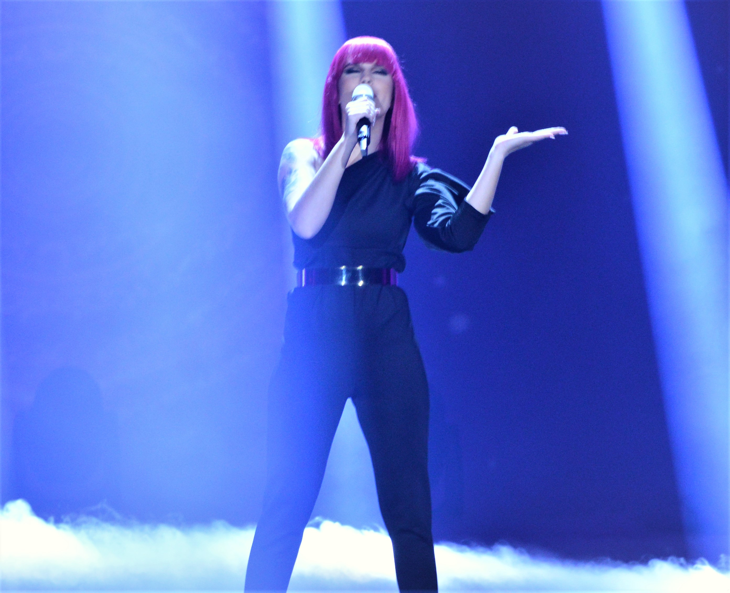 The Slovenian EMA 2017 participant: Nika Zorjan